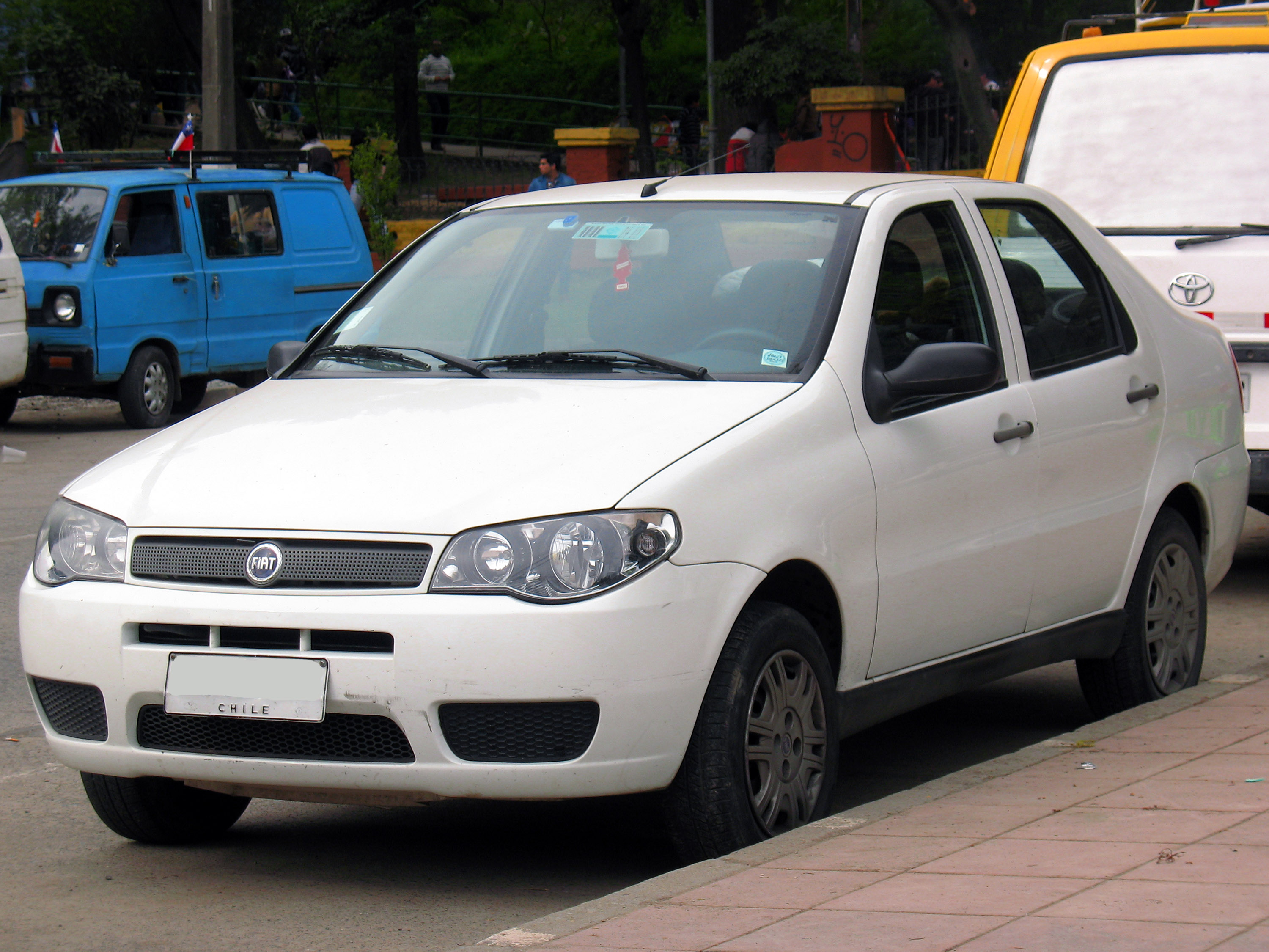 Fiat Siena 1.4 Fire Classic 2008